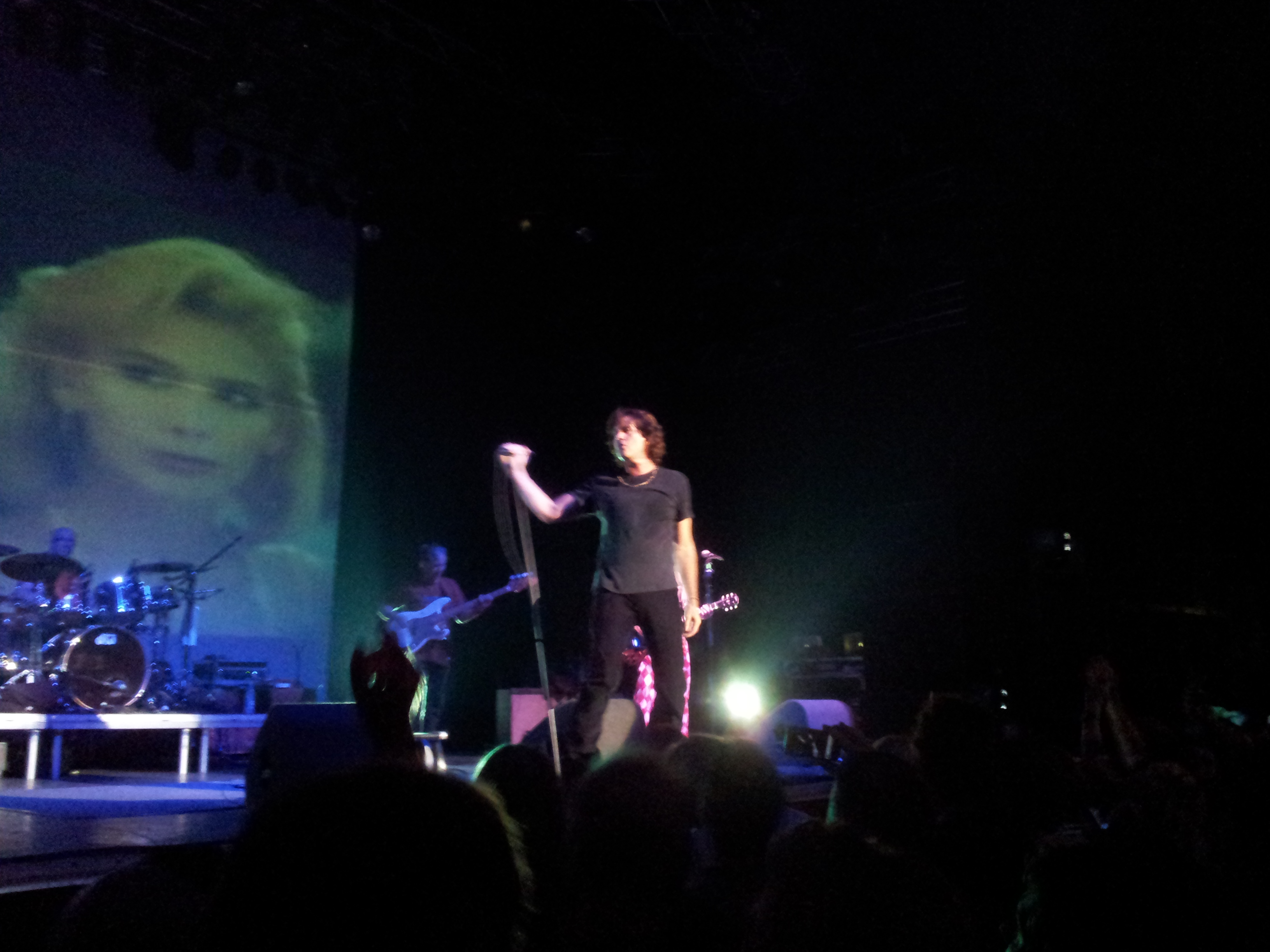 Dave Brock of The Doors tribute band Wild Child singing with Ray Manzarek & Robby Krieger of The Doors at the 013 in Tilburg (16-7-2011)